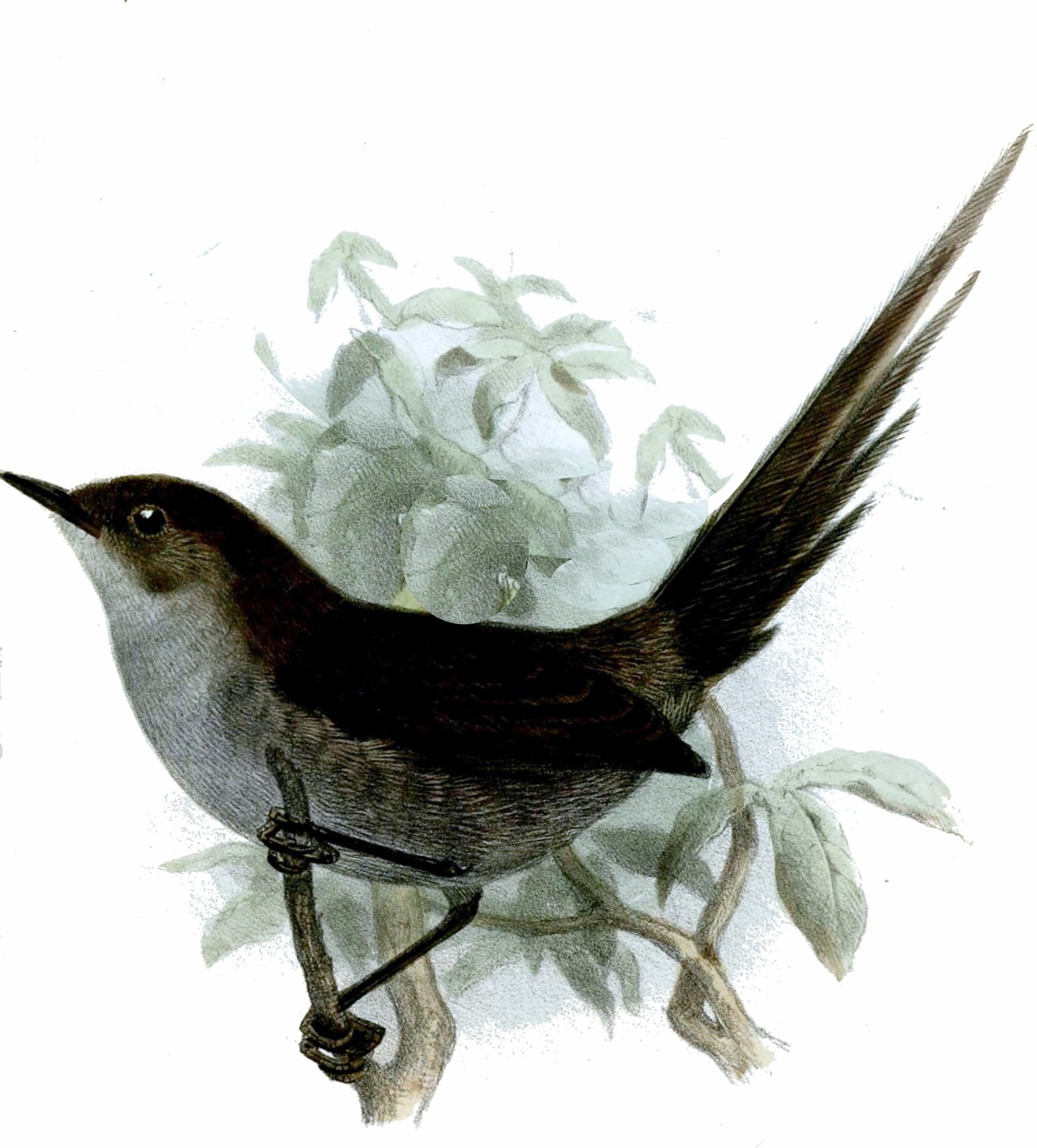 Rusty-headed Spinetail (above); Mouse-colored Thistletail (below)